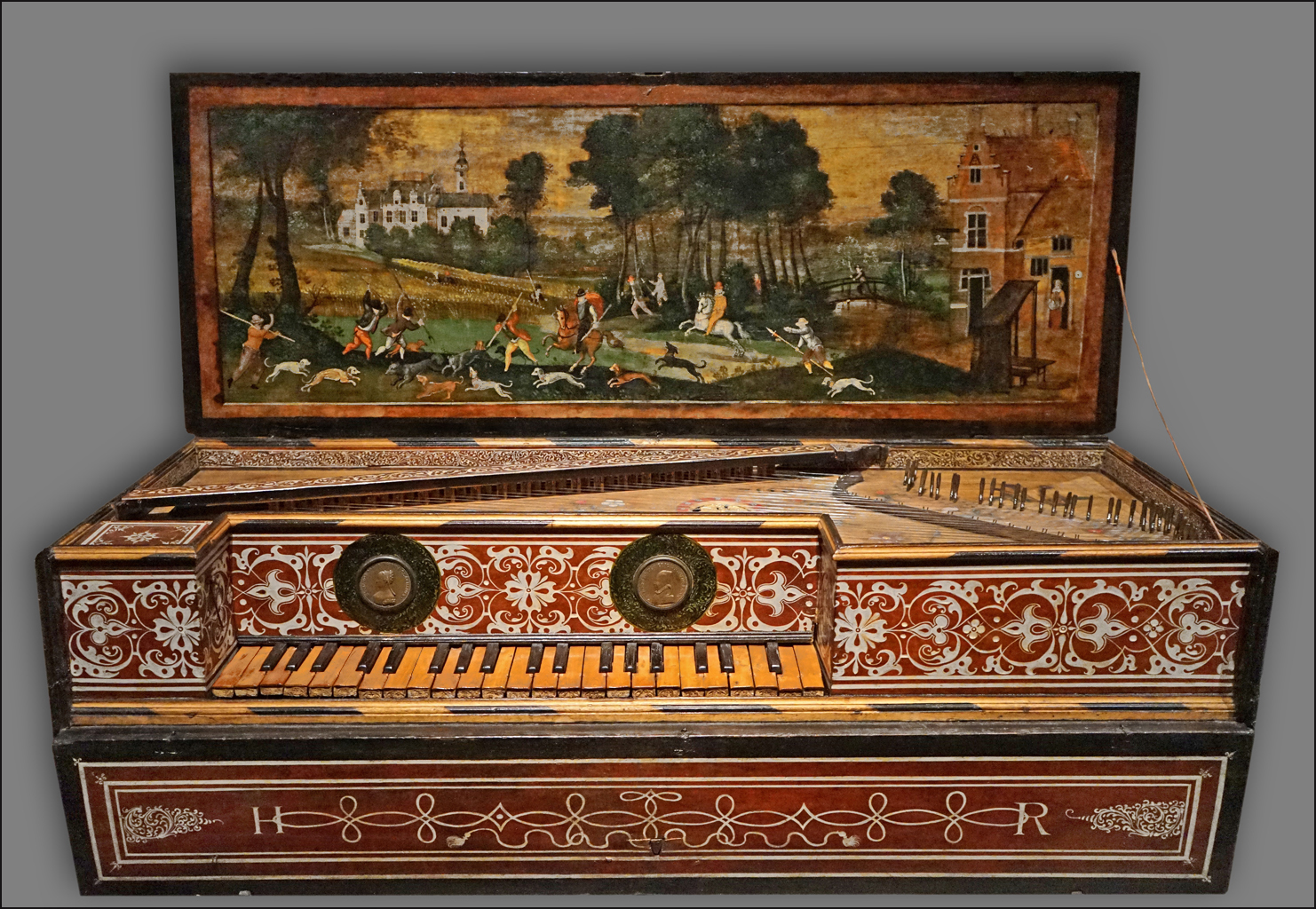 Virginal a fifth (only the French and Italians use the word "virginale" in foreign collections include "virginal" is the English word for an instrument to trackers (the vergette designates the jack which plucks the string.) The harpsichord and spruce belong to this family of keyboard instruments.